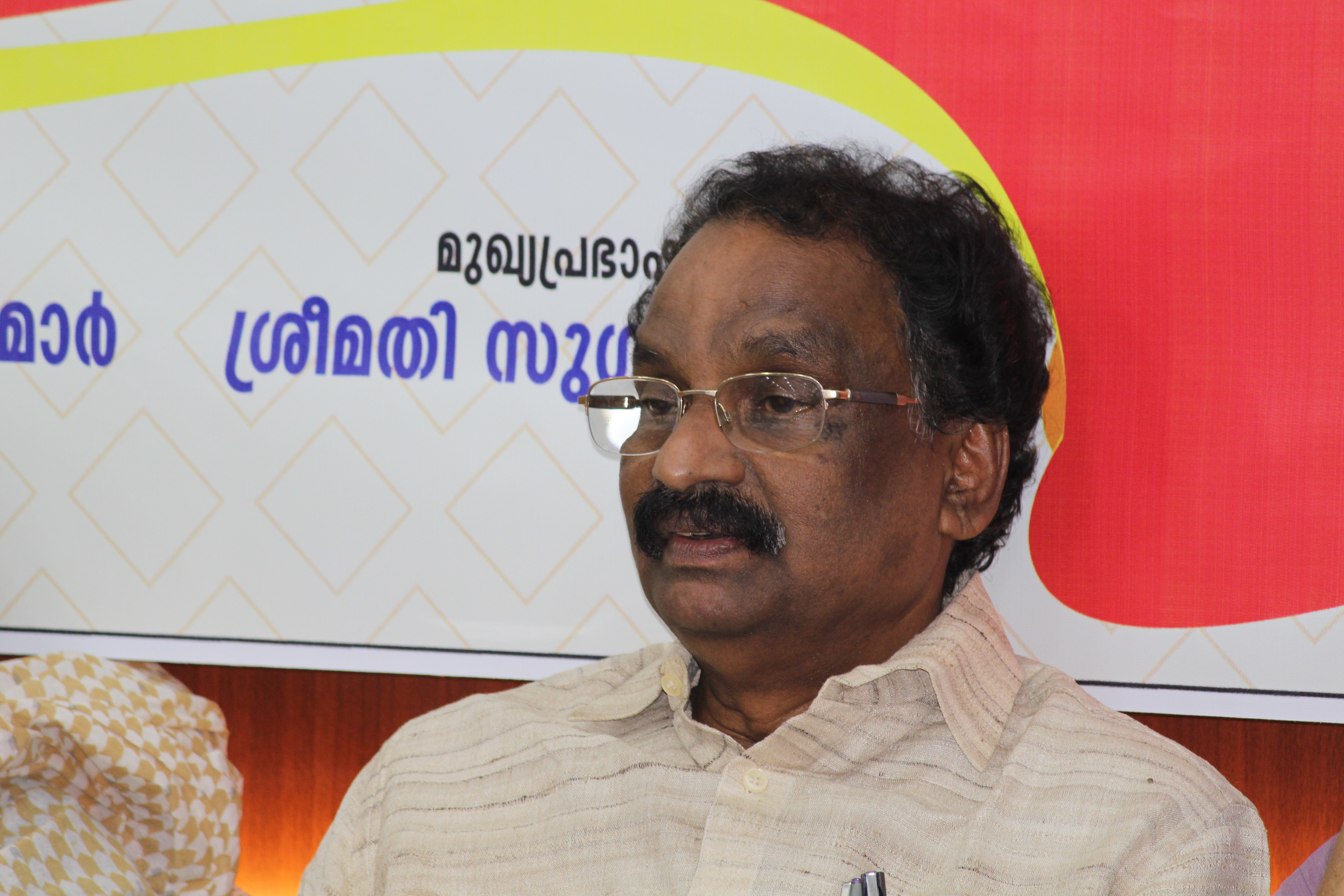 A. K. Balan (born 3 August 1951) is an Indian politician and Advocate.